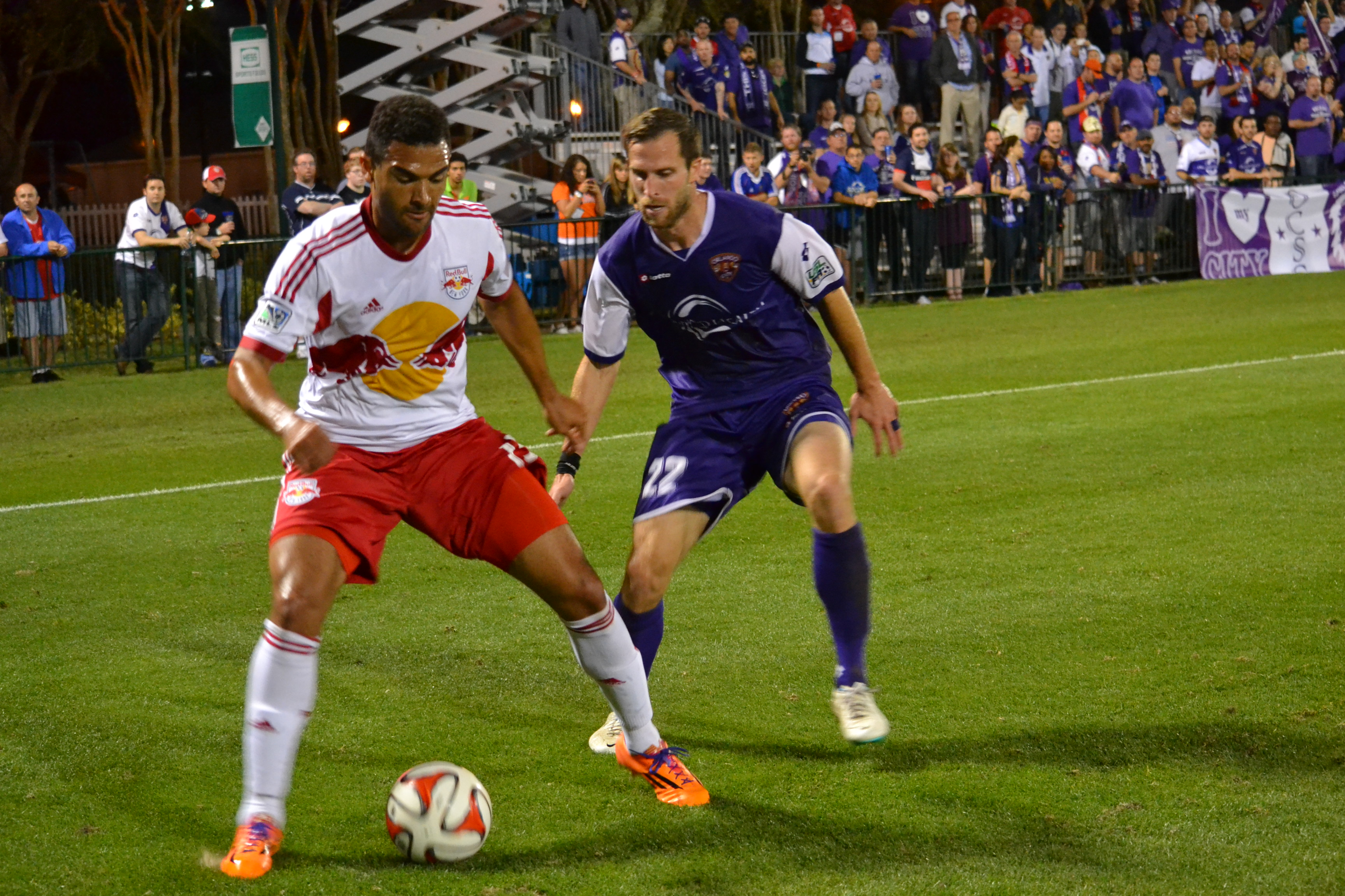 Rob Valentino playing center back for the Orlando City Soccer Club in March 2014 in a preseason game against the New york red Bulls game ended in a 4-4 draw.